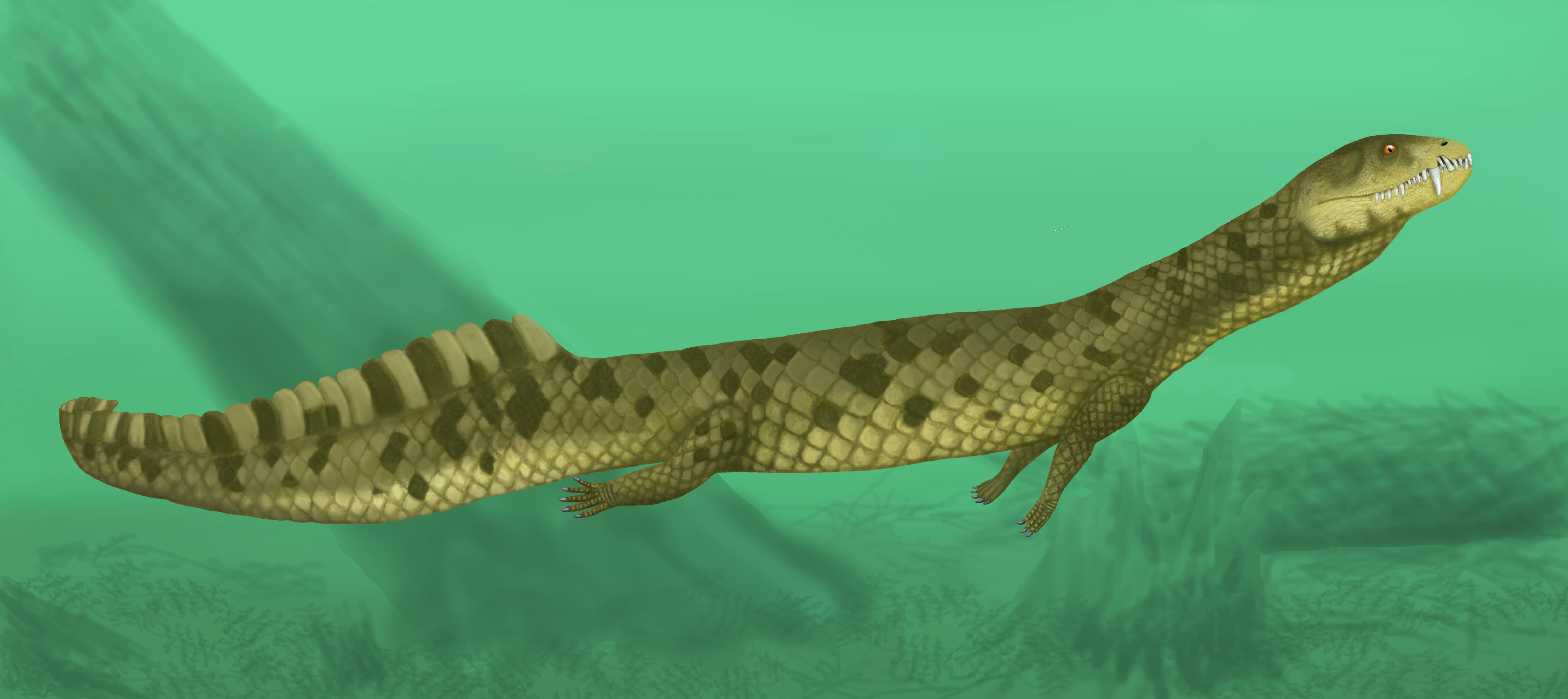 Life restoration of Vancleavea campi. Based on figures in "The osteology and relationships of Vancleavea campi (Reptilia: Archosauriformes)" by Stirling J. Nesbitt, Michelle R. Stocker, Bryan J. Small, and Alex Downs. Zoological Journal of the Linnean Society 157 (4): 814–864.